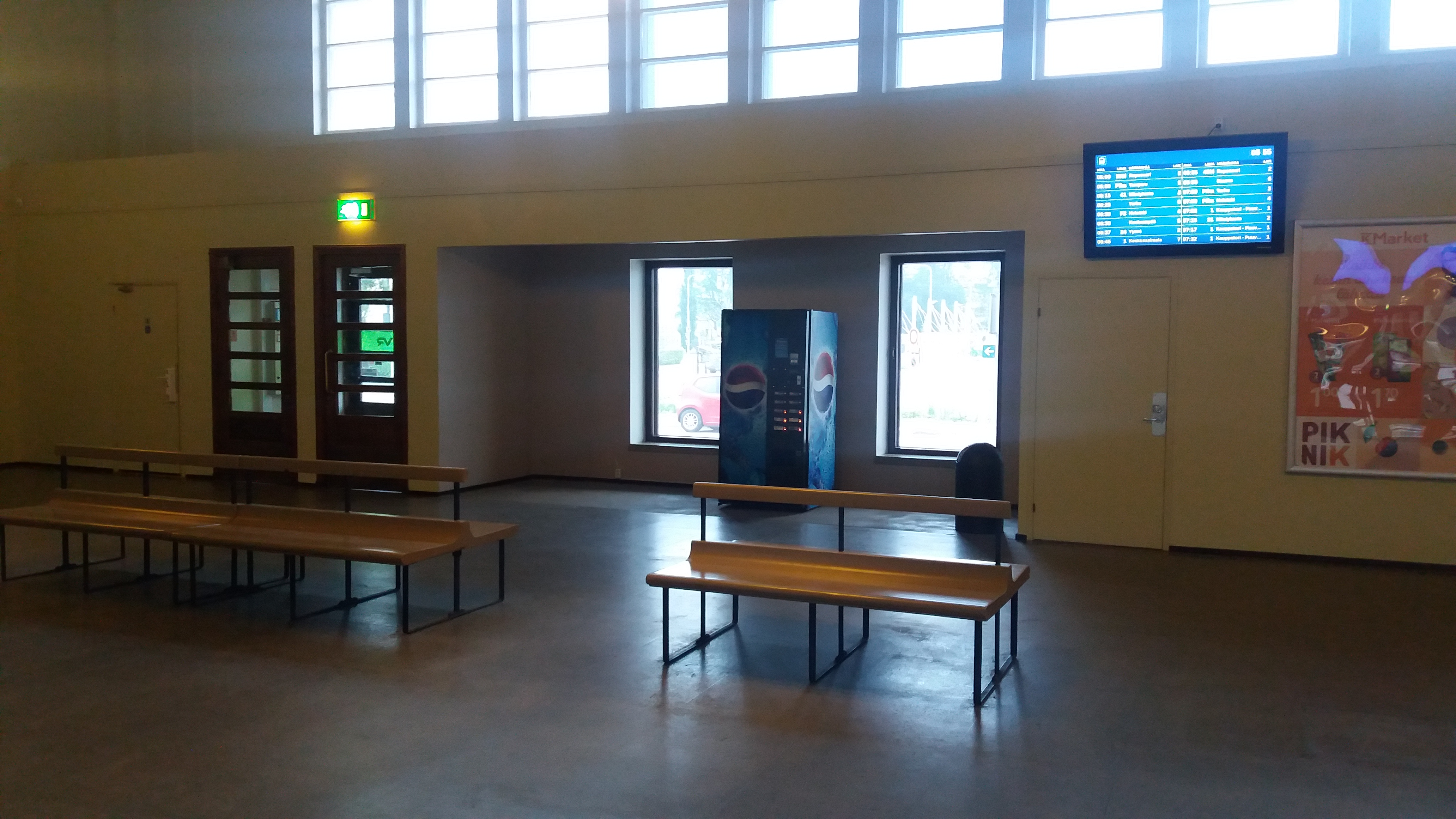 Interior of the Pori railway station in Finland.